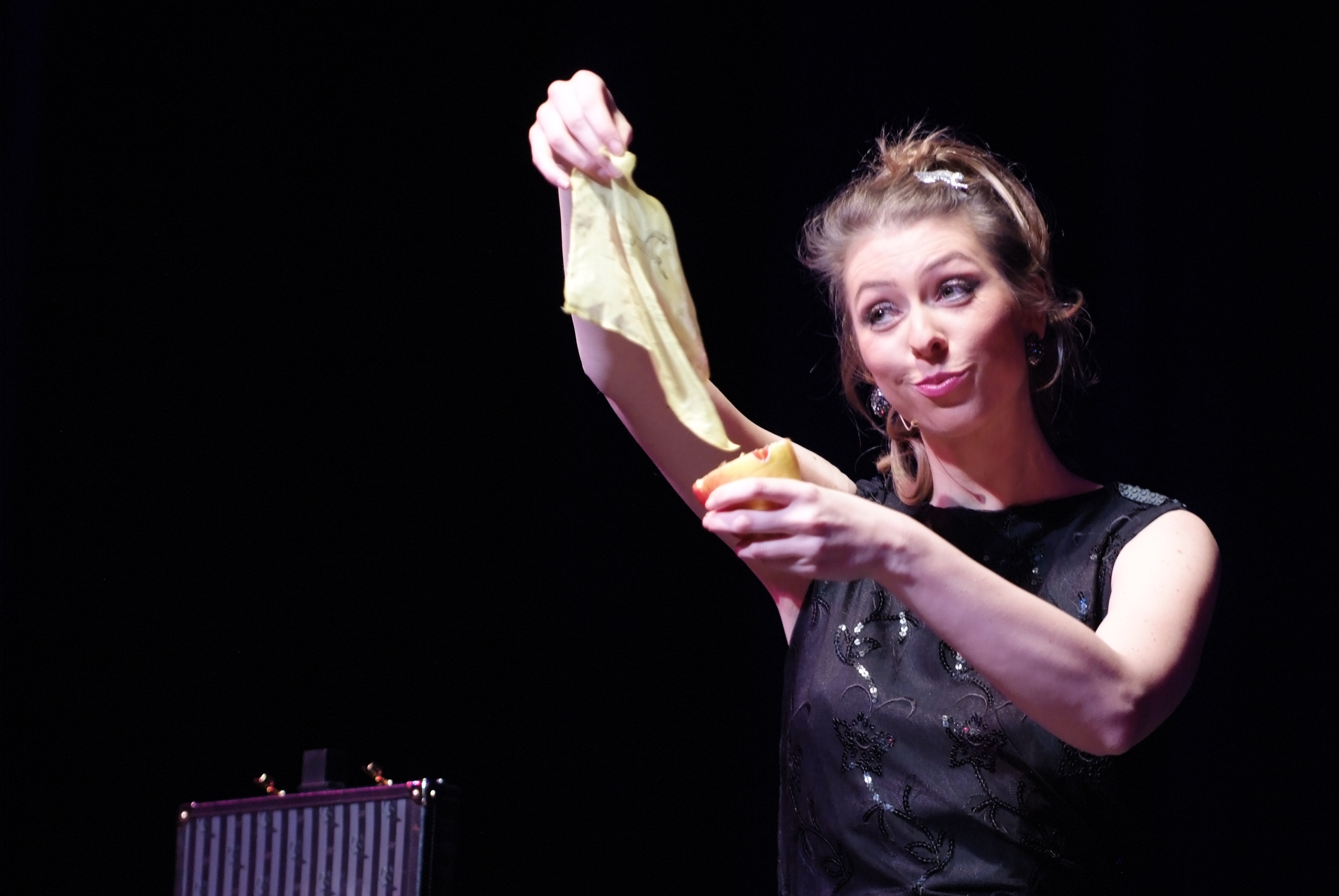 Alana, magician